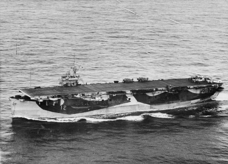 HMS Striker underway